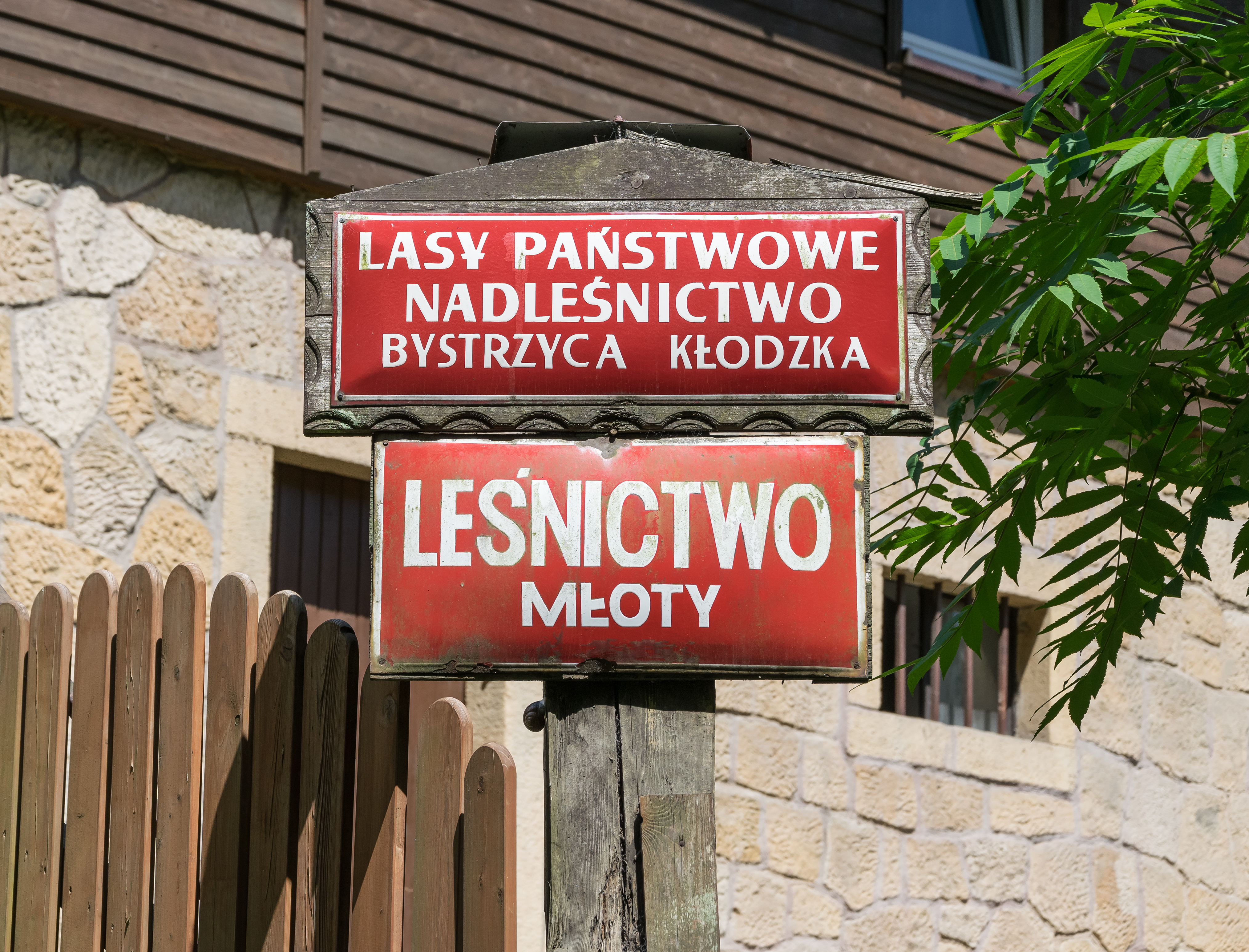 Forester's lodge in Młoty